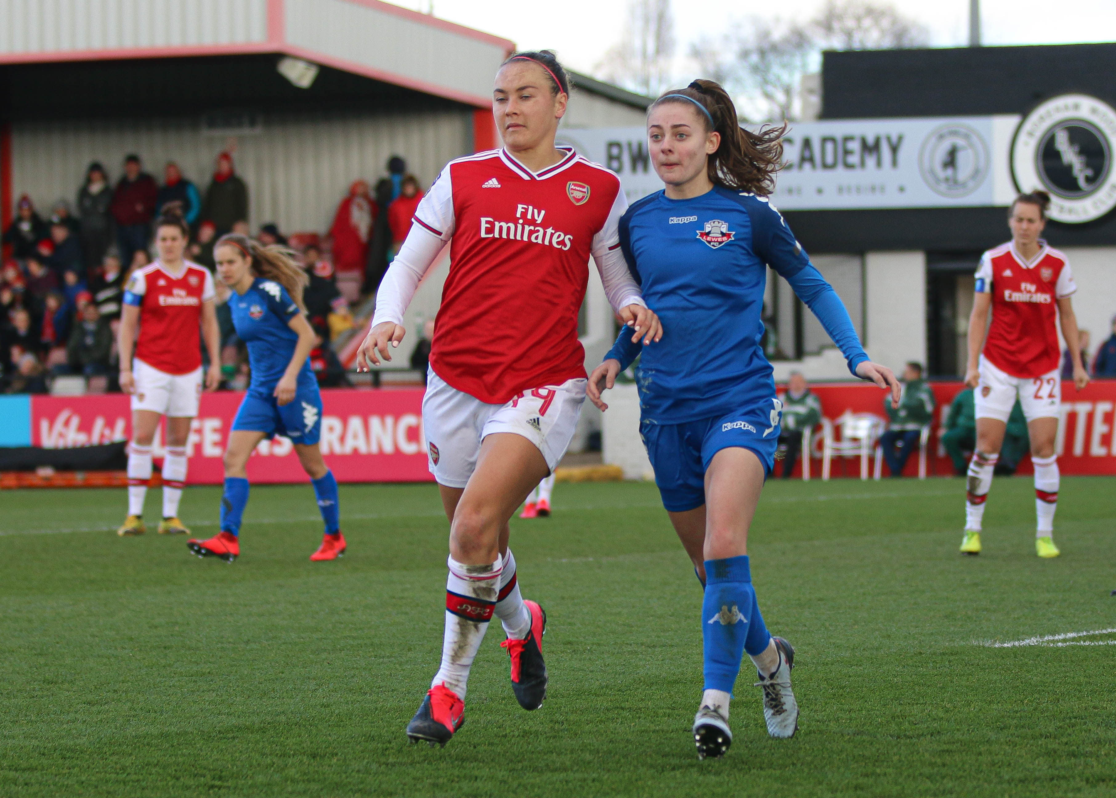 Arsenal WFC – Lewes L.F.C., 23 February 2020